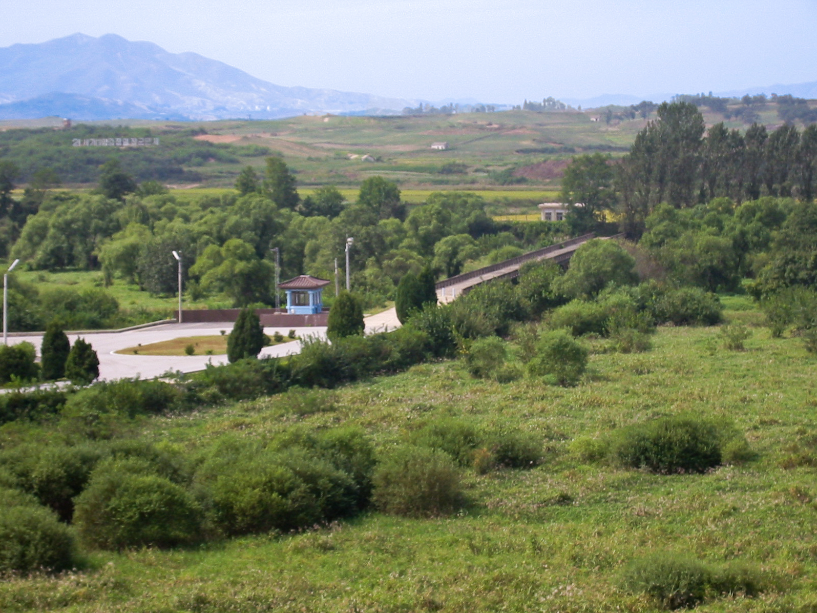 "Bridge of no return" in Panmunjeom (border between South Korea and North Korea)